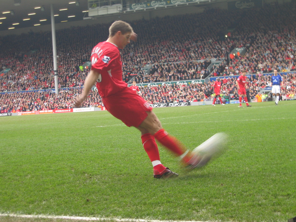 Steven Gerrard, Liverpool F.C. footballer